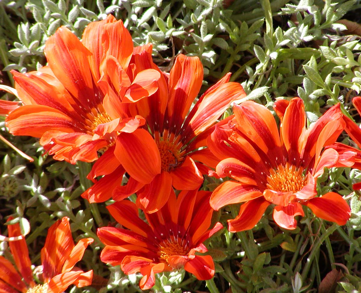 Photo of Gazania hybrid 'Copper King' at the Desert Demonstration Garden in Las Vegas